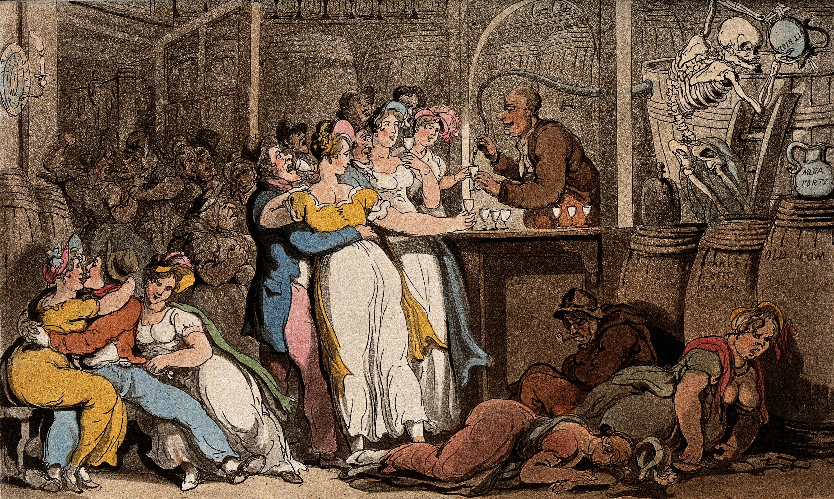 The dance of death: the dram shop. Coloured aquatint by T. Rowlandson, 1816. Iconographic Collections Keywords: Thomas Rowlandson